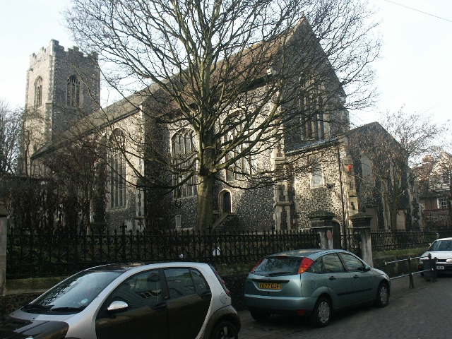 St Peter Parmentergate, Norwich. The name seems to be originally from St Peter Per Mountergate (a nearby street).